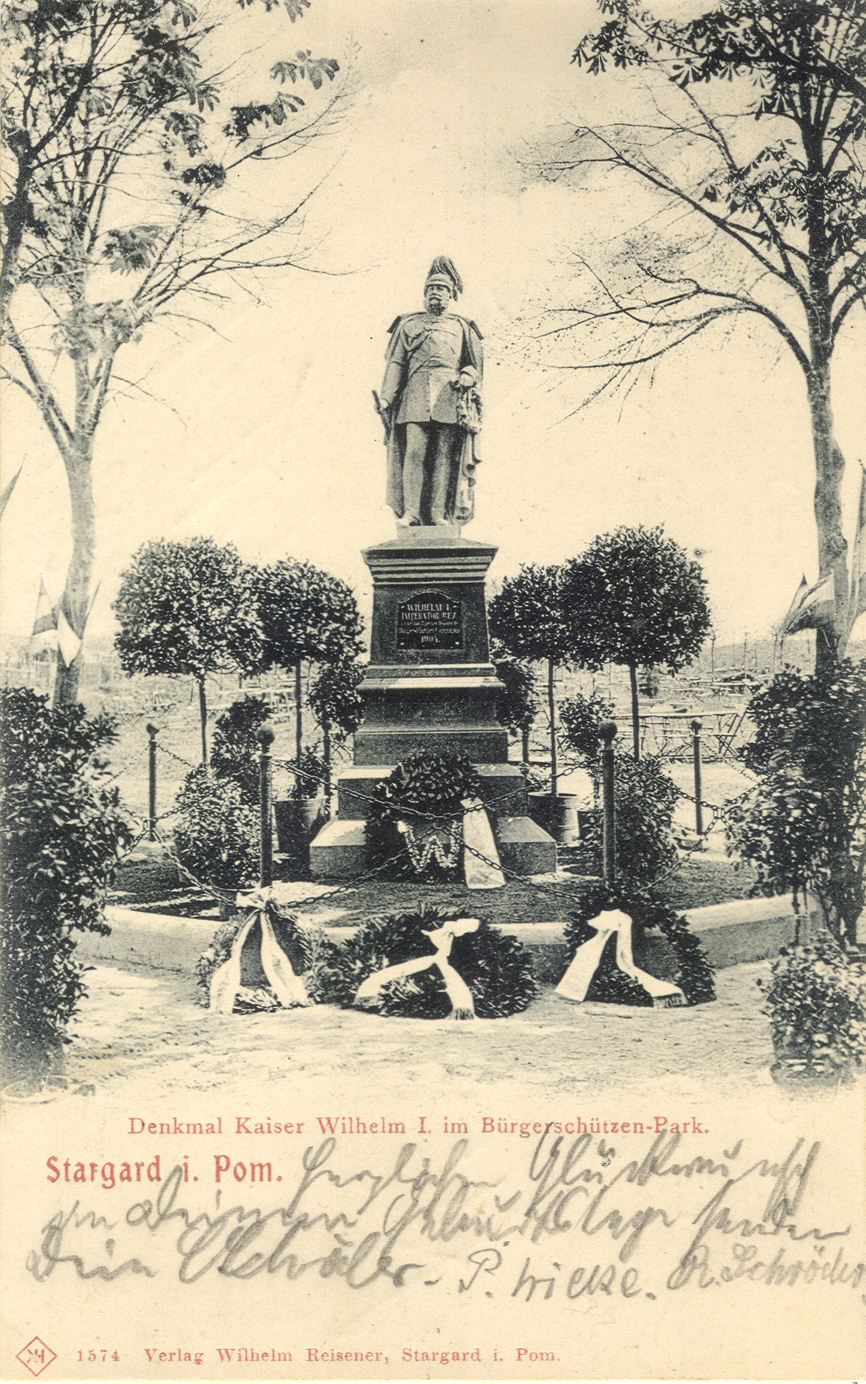 Emporer Wilhelm I. Monument in Stargard in Pomerania